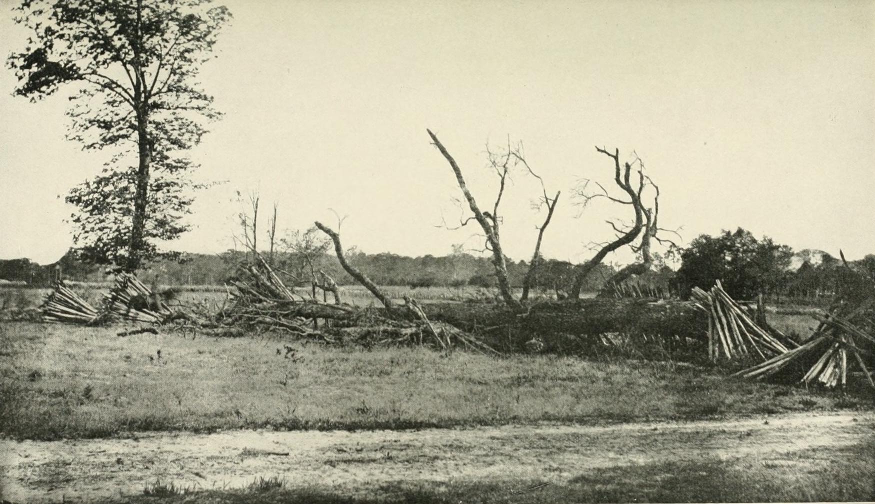 Makeshift Confederate breastworks at the extreme left of their line thrown up at the Battle of Cold Harbor, July 3 1864.